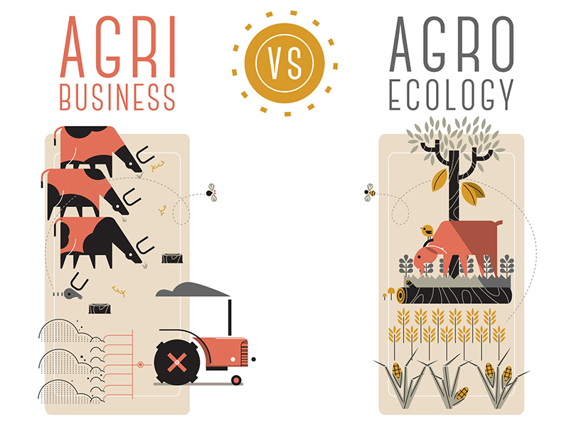 Conceptual illustration of agribusiness vs agroecology